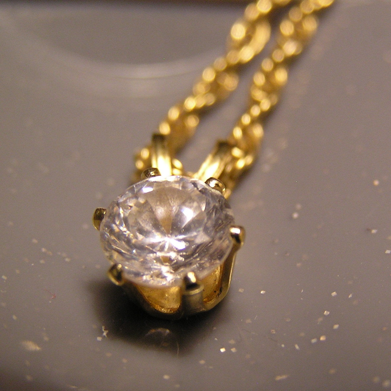 100% fake gem, maybe a "cubic zirconia" or something